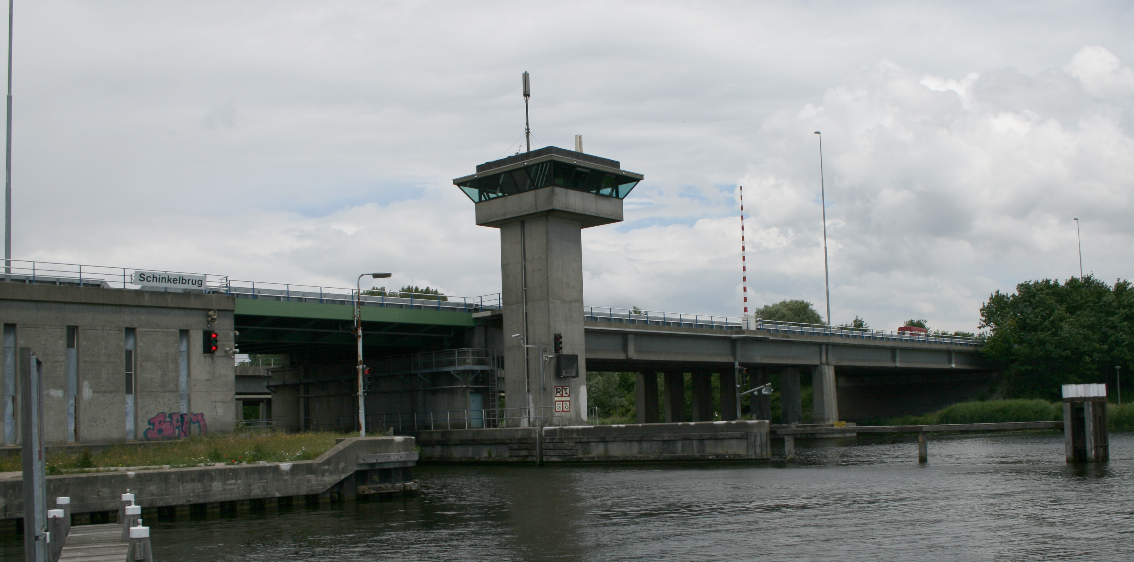 The bridge Schinkelbrug in Amsterdam, Holland.